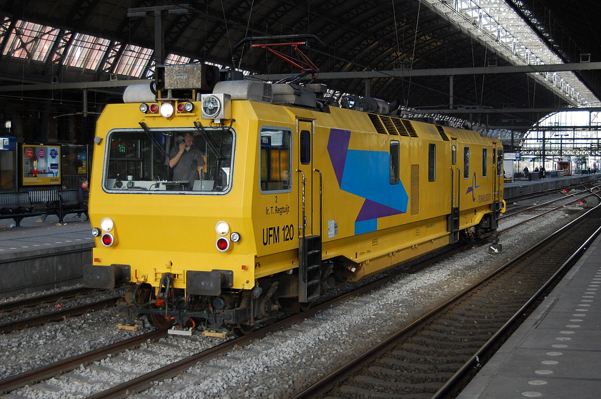 UFM 120.